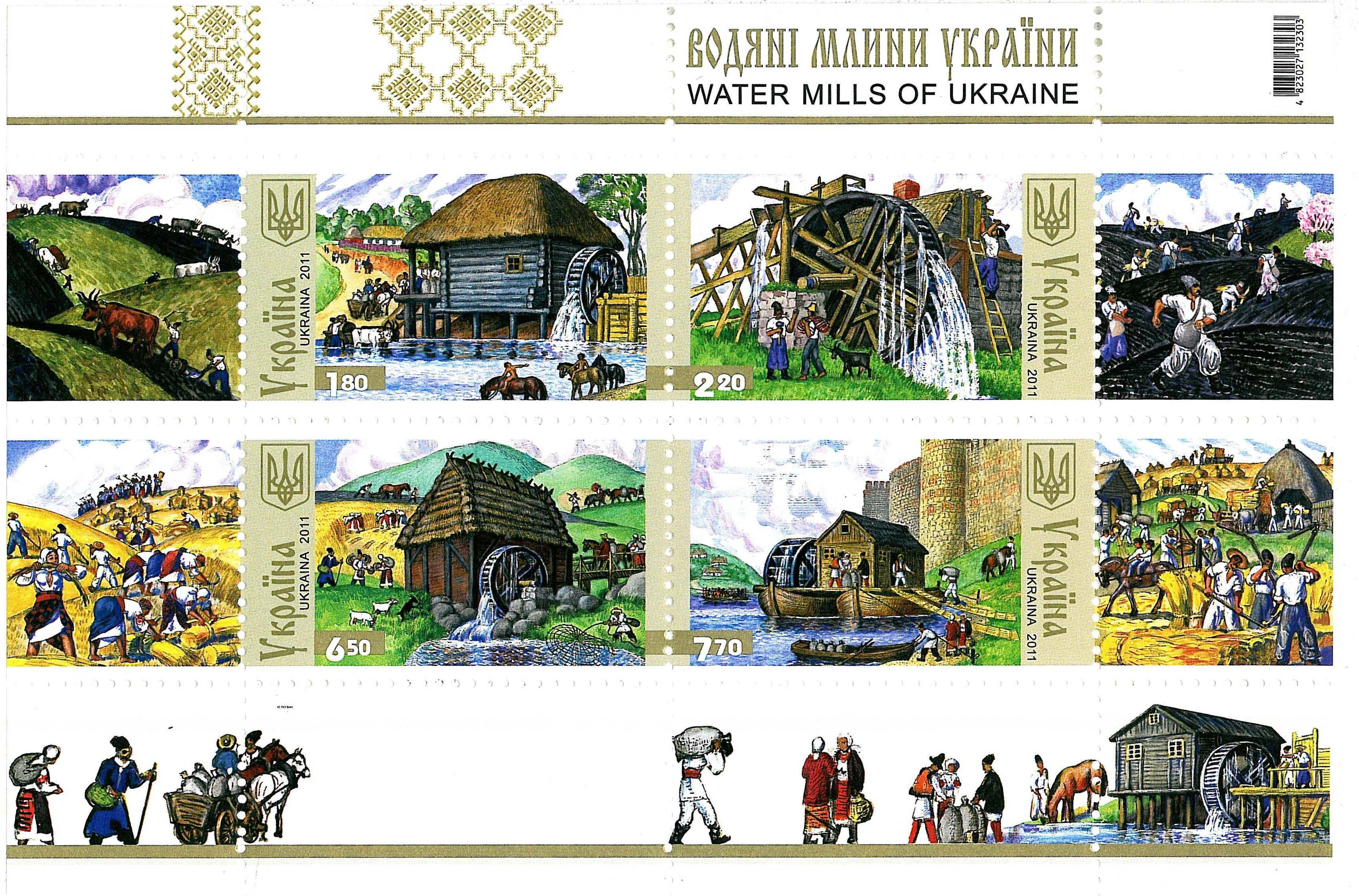 4 stamps. Water mills, Ukraine stamps, 2012.